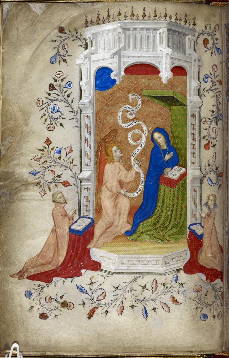 Miniature of the Annunciation, with two donors praying, Royal 2 A. xviii, f. 23v